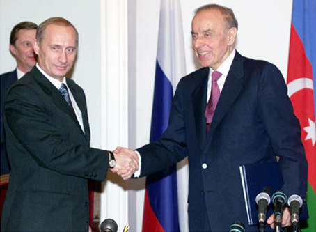 THE PRESIDENTIAL PALACE, BAKU. President Putin with President Heydar Aliyev of Azerbaijan at a ceremony of signing Russian-Azerbaijani documents.